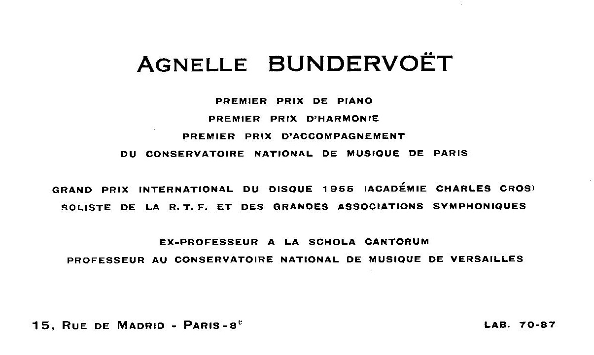 Agnelle Bundervoët carte de visite